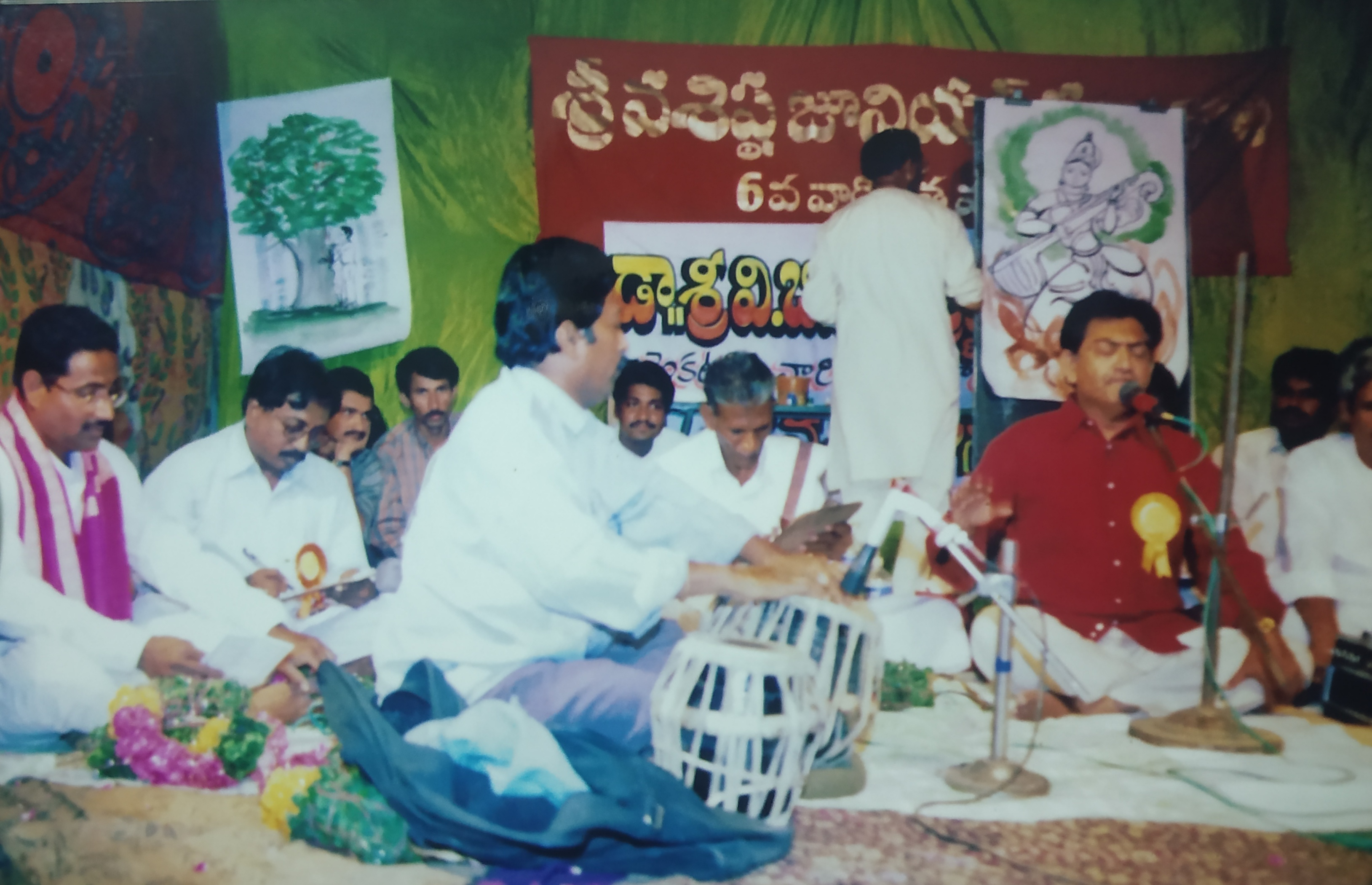 Geyadhara with Sai krushna yaachendra